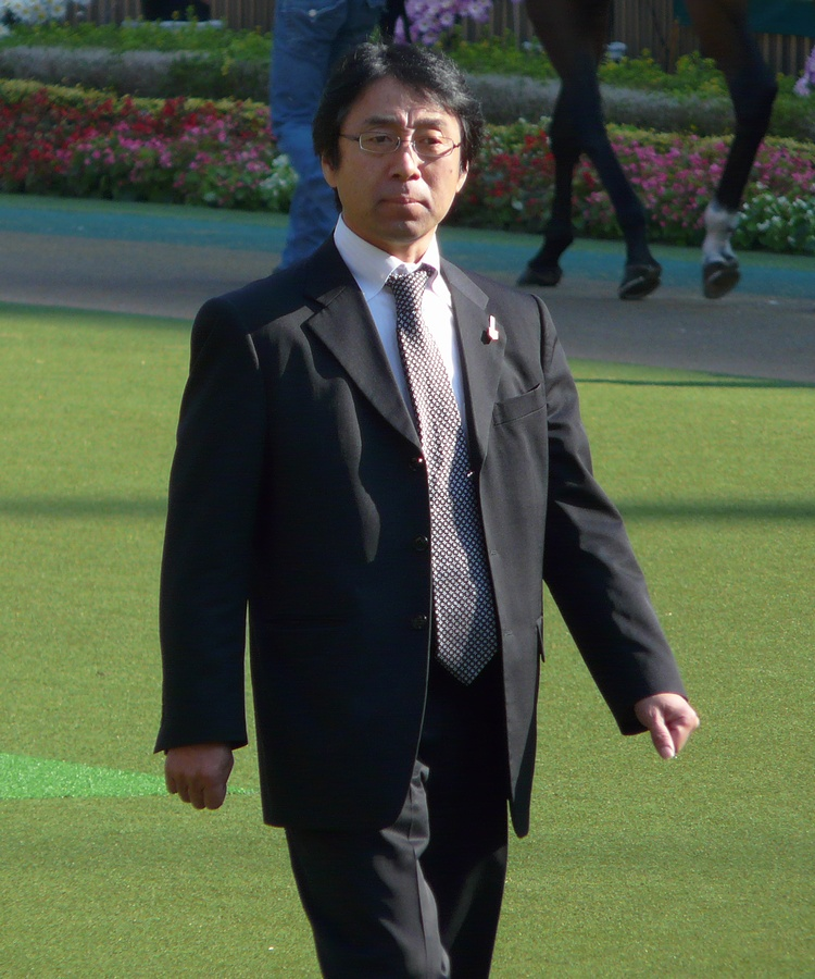 Hitoshi-Matoba20101127